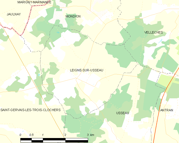 Map of French municipality Leigné-sur-Usseau